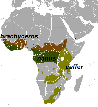 Range map of the (sub)species of the African buffalo (Syncerus (caffer)) Syncerus caffer caffer Syncerus caffer brachyceros Syncerus caffer nanus accoring to: IUCN SSC Antelope Specialist Group 2008. Syncerus caffer. In: IUCN 2011. IUCN Red List of Threatened Species. Version 2011.2. . Downloaded on 22 May 2012. C. P. Groves, D. M. Leslie Jr. (2011). Family Bovidae (Hollwo-horned Ruminants). (585-588). In: Wilson, D. E., Mittermeier, R. A., (Hrsg.). Handbook of the Mammals of the World. Volume 2: Hooved Mammals. Lynx Edicions, 2009. ISBN 978-84-96553-77-4